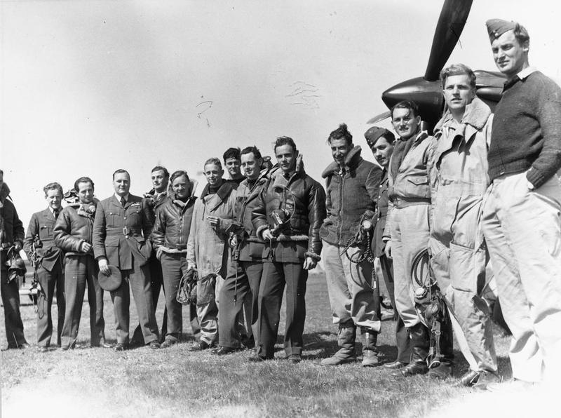 IWM caption : Pilots of No. 33 Squadron RAF, at Larissa, Greece, with Hawker Hurricane Mark I, V7419, in background. They are (left to right); Pilot Officer P R W Wickham Flying Officers D T Moir V C "Woody" Woodward Flight Lieutenant J M "Pop" Littler Flying Officers E H "Dixie" Dean F Holman (k.i.a. 20 April 41) E F "Timber" Woods (k.i.a. 17 June 1941) Pilot Officer C A C Chetham (k.i.a. 15 April 1941) Flight Lieutenant A M Young Squadron Leader M St.J "Pat" Pattle (Squadron Commanding Officer, k.i.a. 20 April 1941) Flying Officer H J Starrett (died of burns 22 1941) Flight Lieutenant G Rumsey (Squadron Adjutant) Pilot Officers A R Butcher (p.o.w. 22 May 1941) W Winsland R Dunscombe (p.o.w. 22 May 1941)